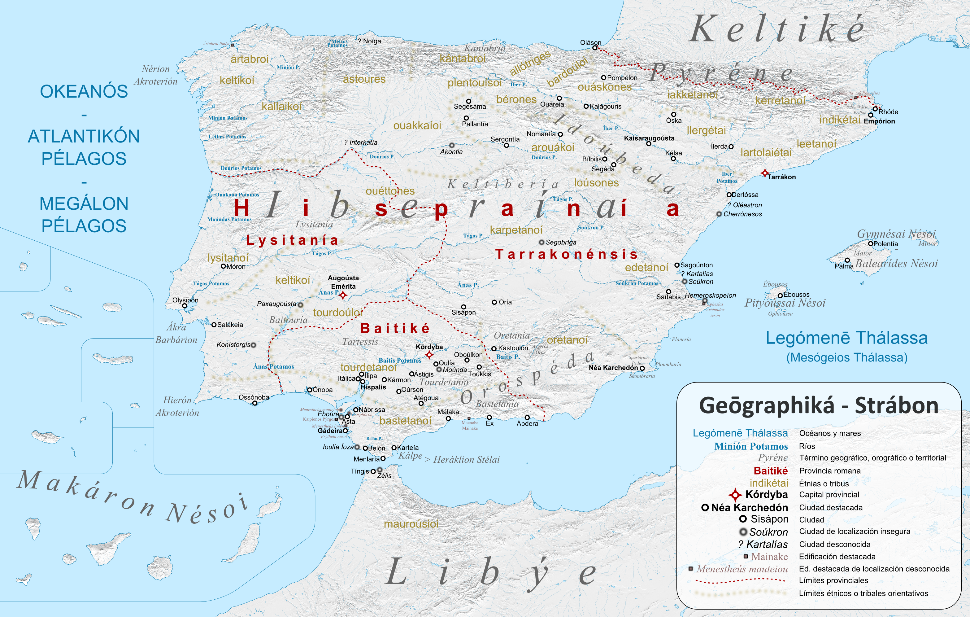 Map of Iberian Peninsula and current Spanish and Portuguese islands showing classic Ibería and islands according Strabo's Geography (~7BCE)